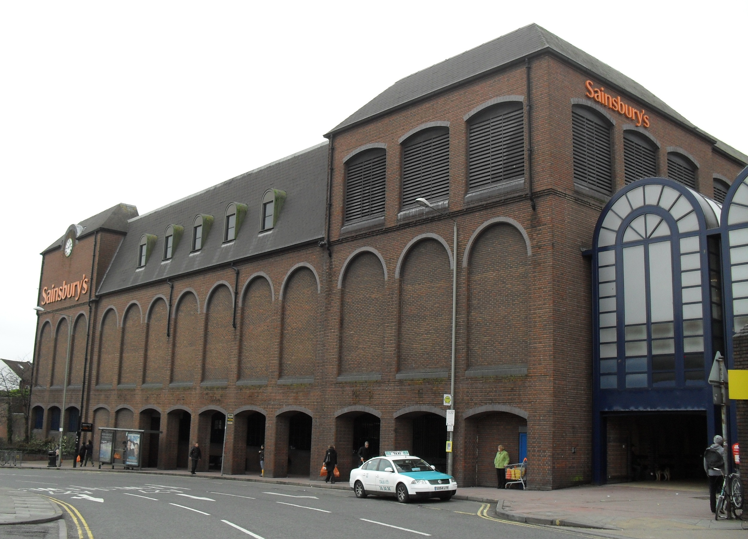 Sainsbury's Supermarket, Lewes Road, Round Hill, City of Brighton and Hove, England. Built in 1985 on the site of the former Lewes Road viaduct (which carried the Kemp Town Branch Line across the road). The arched recesses in the wall pay homage to the viaduct.